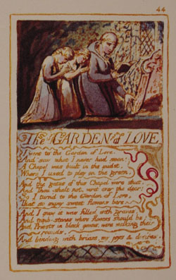 Songs of Innocence and Experience - A Poison Tree